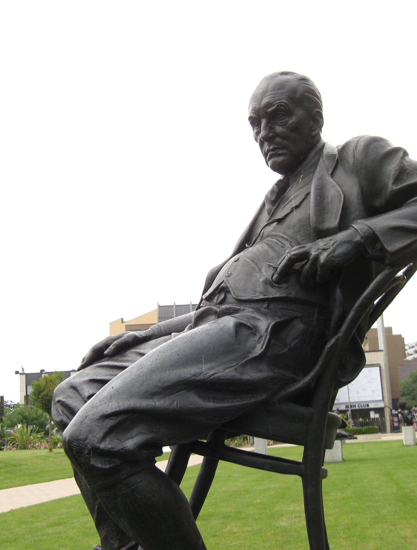 A statue of the Russian novelist Vladimir Nabokov.